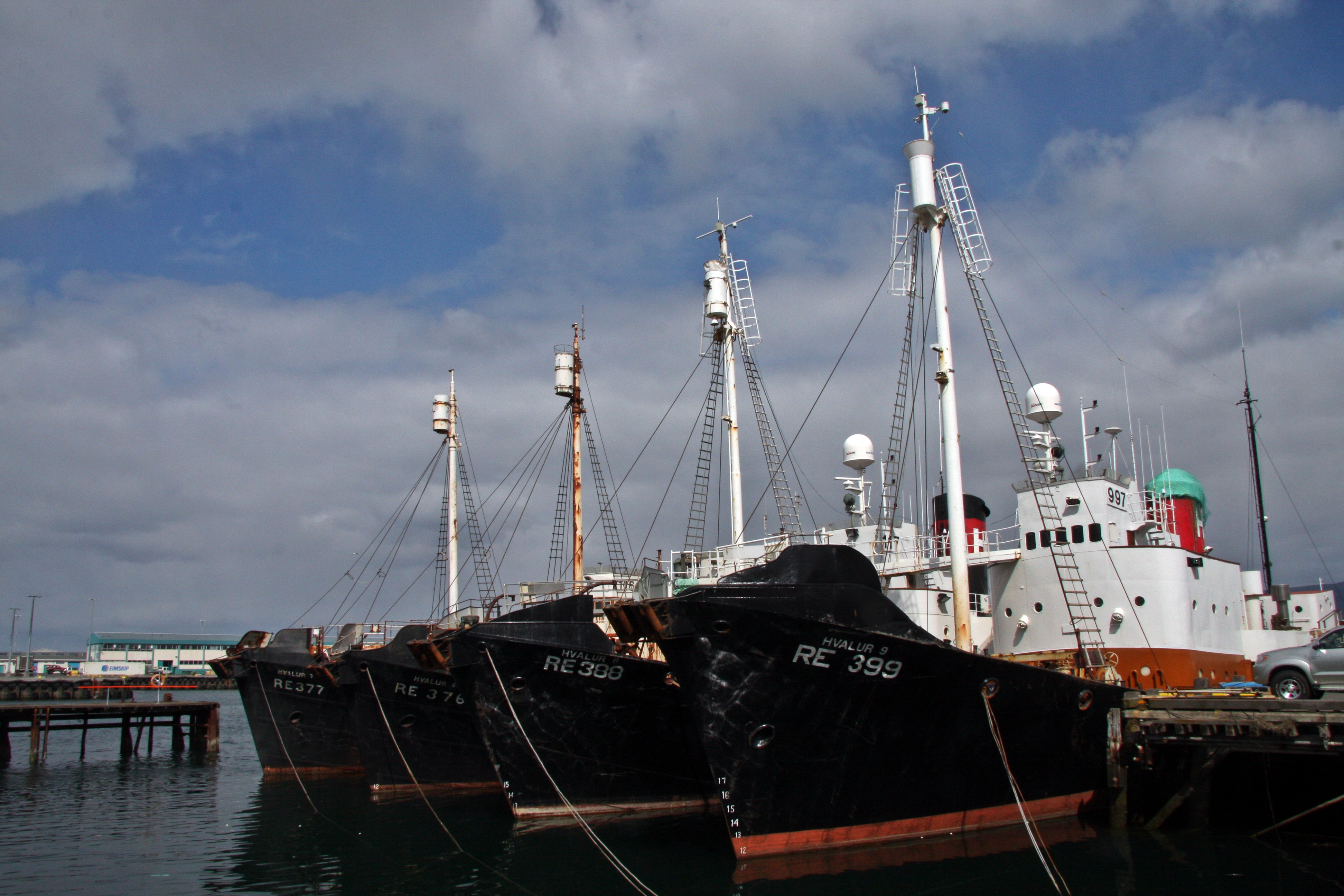 Whaling